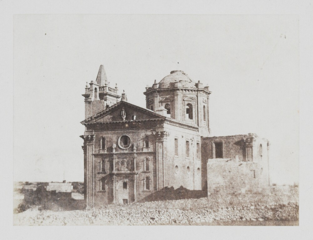 Calvert Jones, 'Ruined Church at Casal Bircircara', Malta 1846